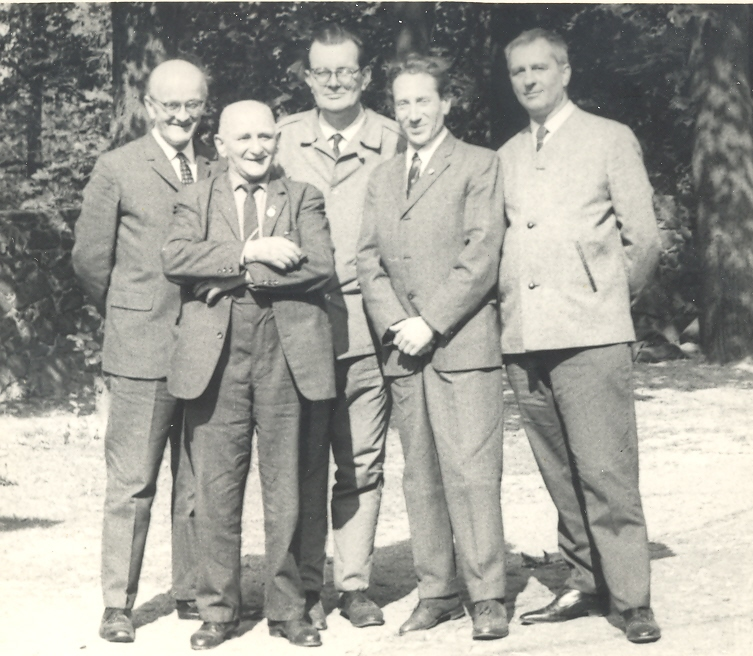 Wolfgang Weber (1909-1981), Kurt Galke (1891-1971), Karl Pohlheim (1922-2014), Erwin Masanek (1926-2008), Helmut Klug (1921-1981) - German chess composers (f. l. t. r.)